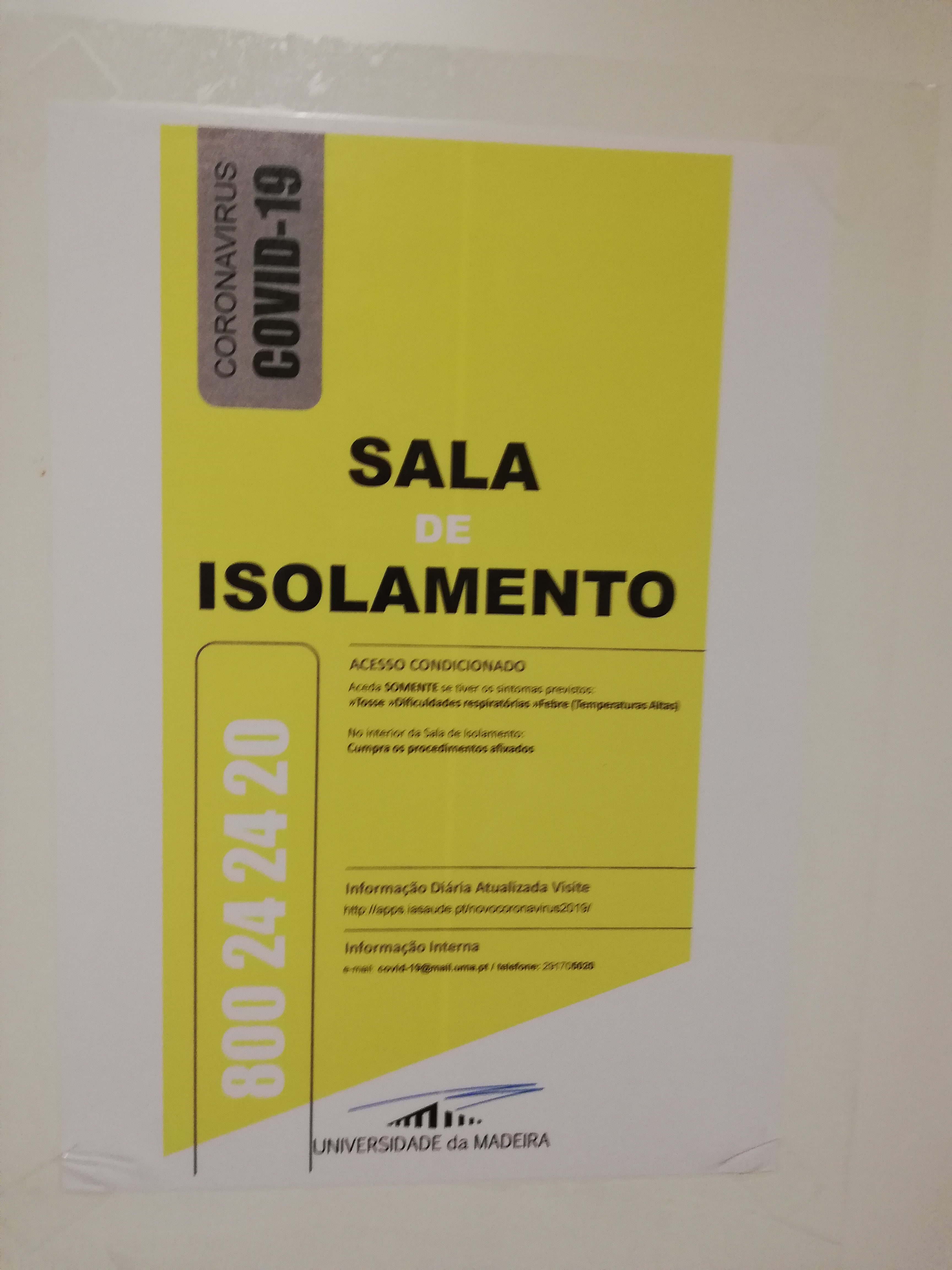 Covid-19 Isolation Room, Universidade da Madeira, Portugal